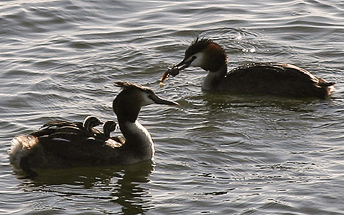 Family of Great Crested Grebes. Two adults and two chicks sitting on a parents back. Other parent bringing fish.